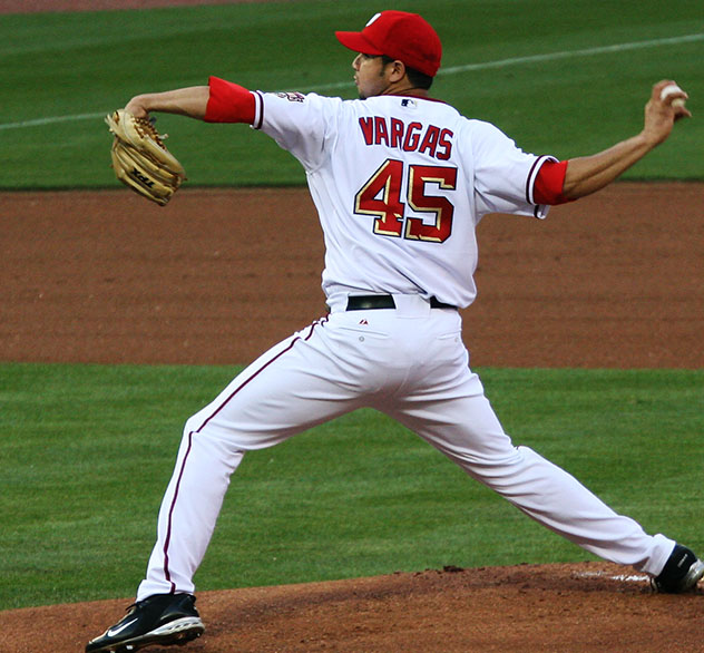 The first pitch of the game, Vargas' first pitch for the Nationals, and... it was socked for a home run. Not a great start to Vargas' first appearance, where he gave up six runs in the top two innings.